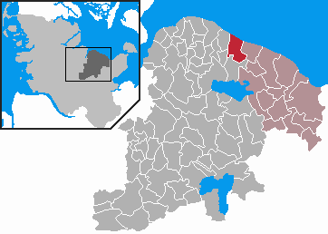 This map shows the area of the Gemeinde (municipality) Schwartbuck in the Kreis (district) Plön, Schleswig-Holstein, Germany.